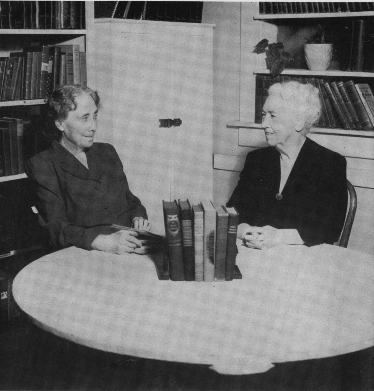 Lausanne co-founders sitting at a table.